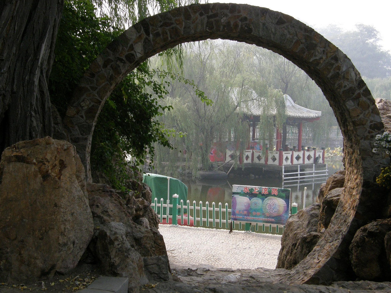 dalian 劳动公园陳炬燵